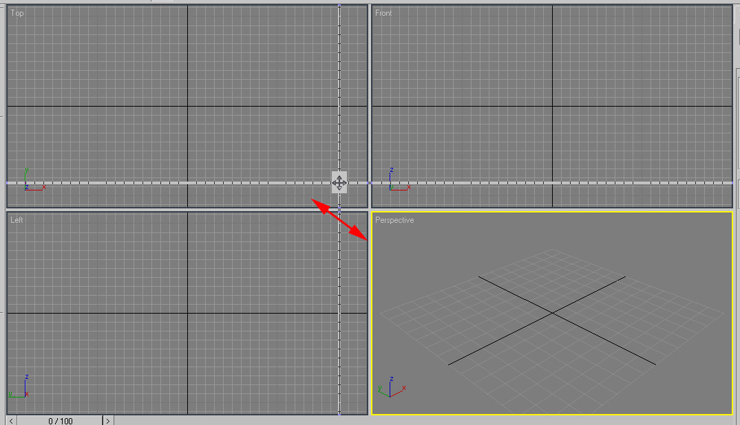 The Viewports of 3ds max 7